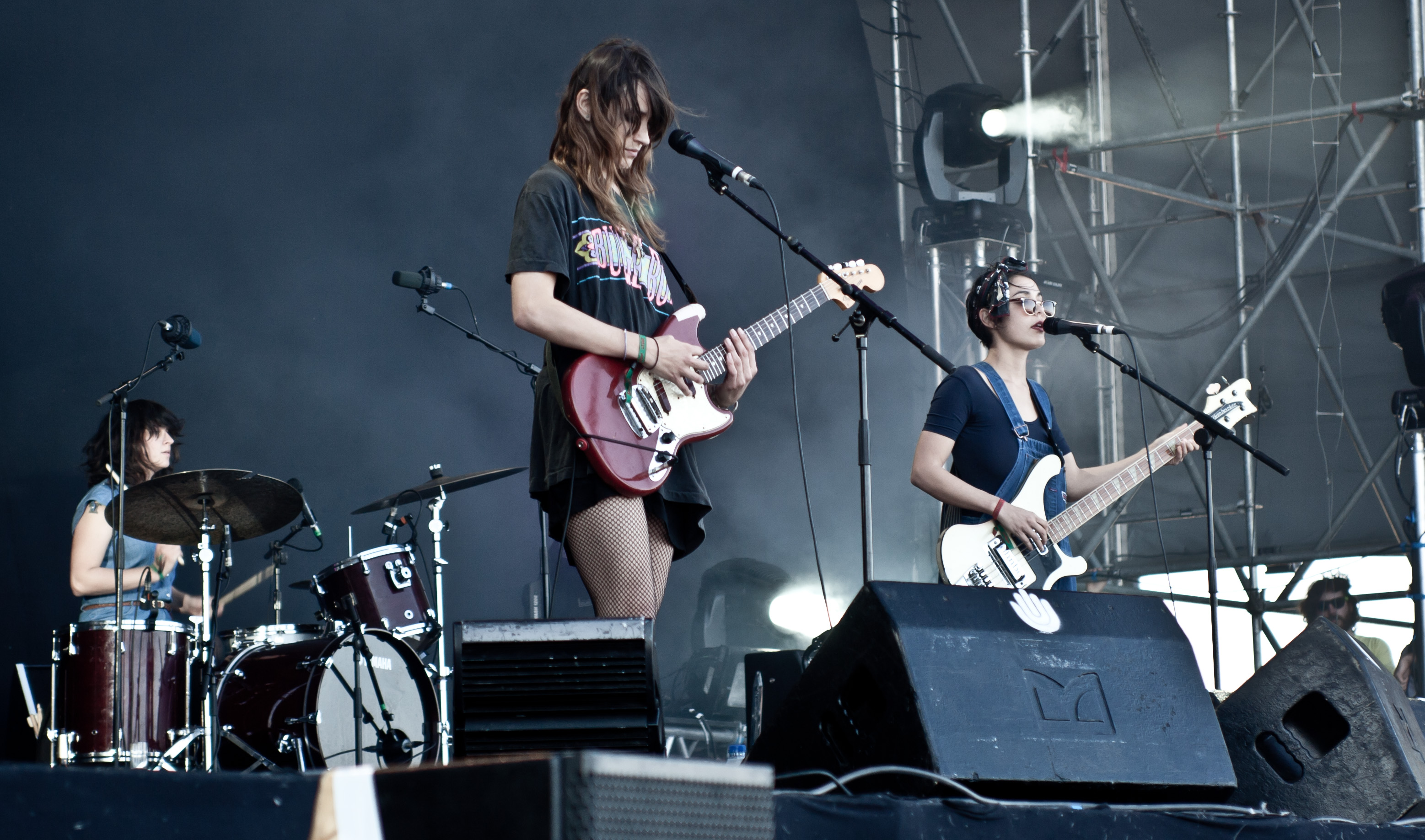 Warpaint live